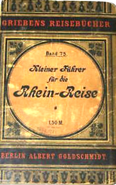 Cover of travel guide book entitled "Rhein-Reise" published by Albert Goldschmidt of Berlin